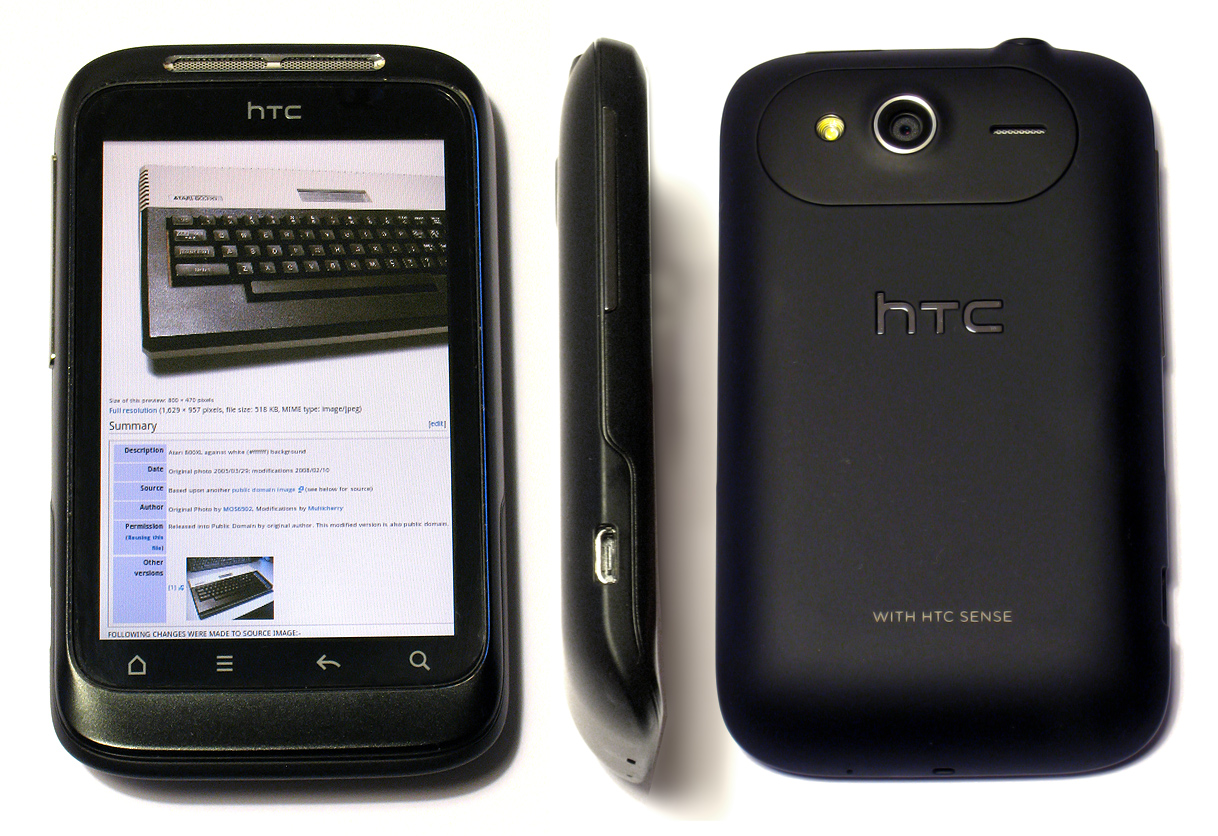 HTC Wildfire S Android smartphone front, side and back views. (Front view shows part of Wikimedia Commons page for image of an Atari 800XL computer)